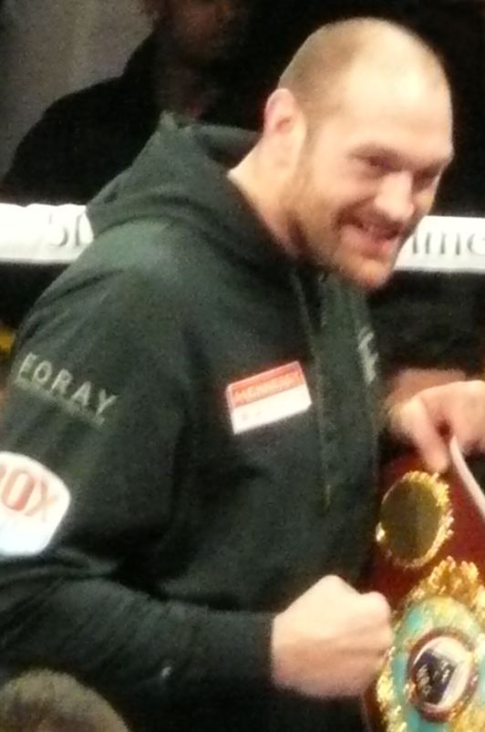 Professional boxer Tyson Fury at the Copper Box Arena in London.